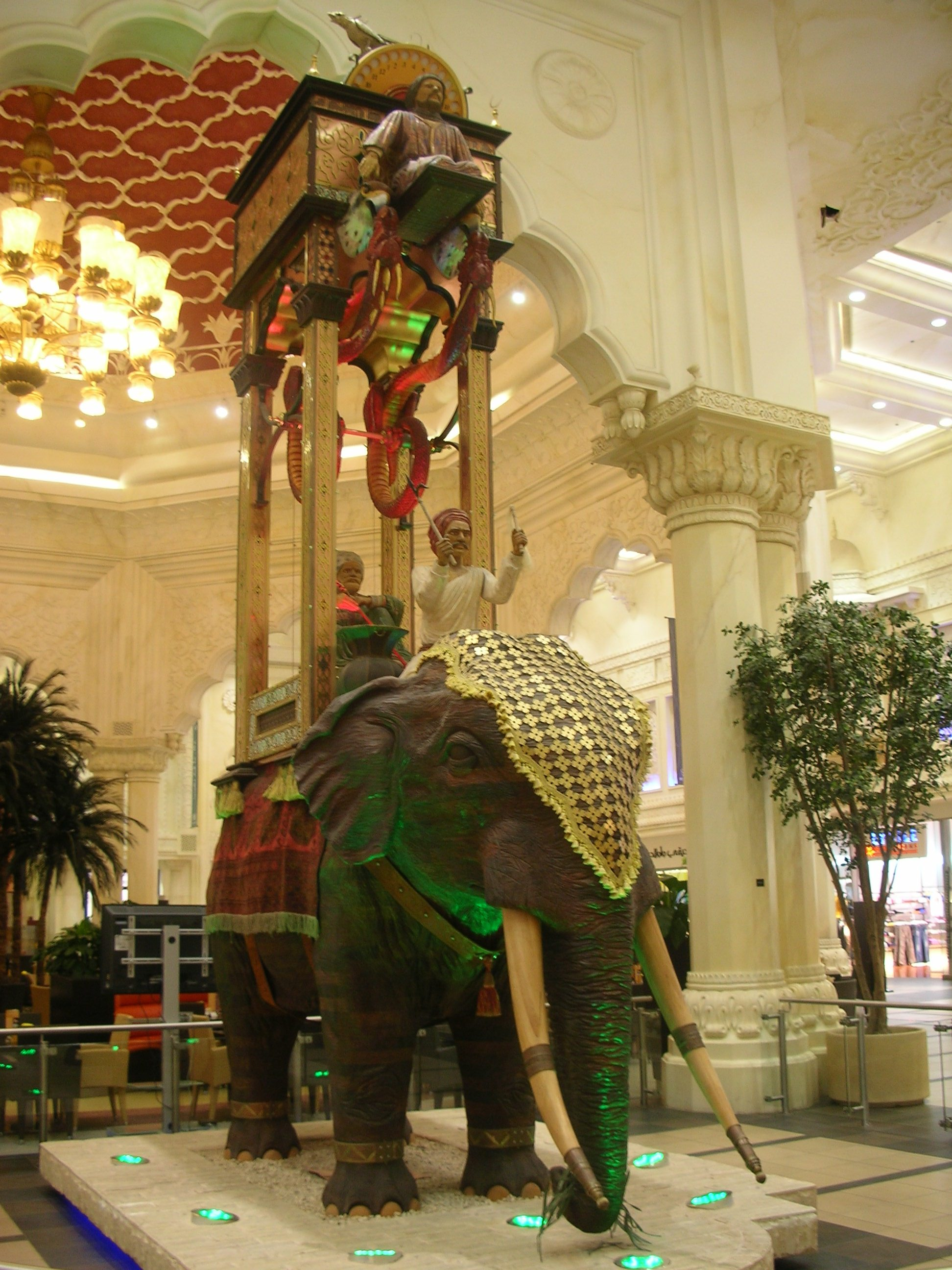 Reproduction of the elephant clock in the Ibn Battuta Mall, Dubai, United Arab Emirates.